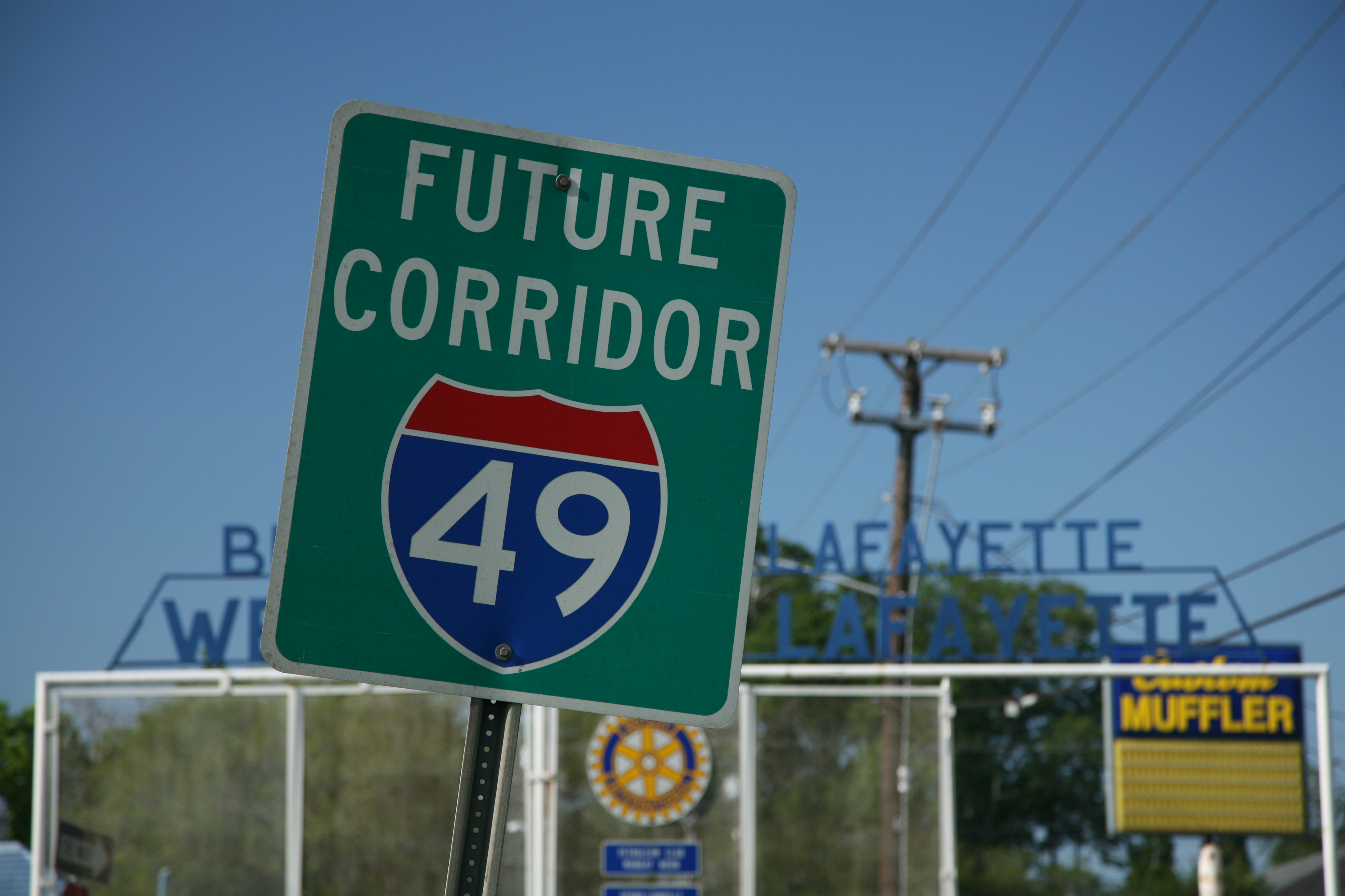 Sign marking the Future corridor of Interstate 49 in Lafayette, Louisiana, USA.